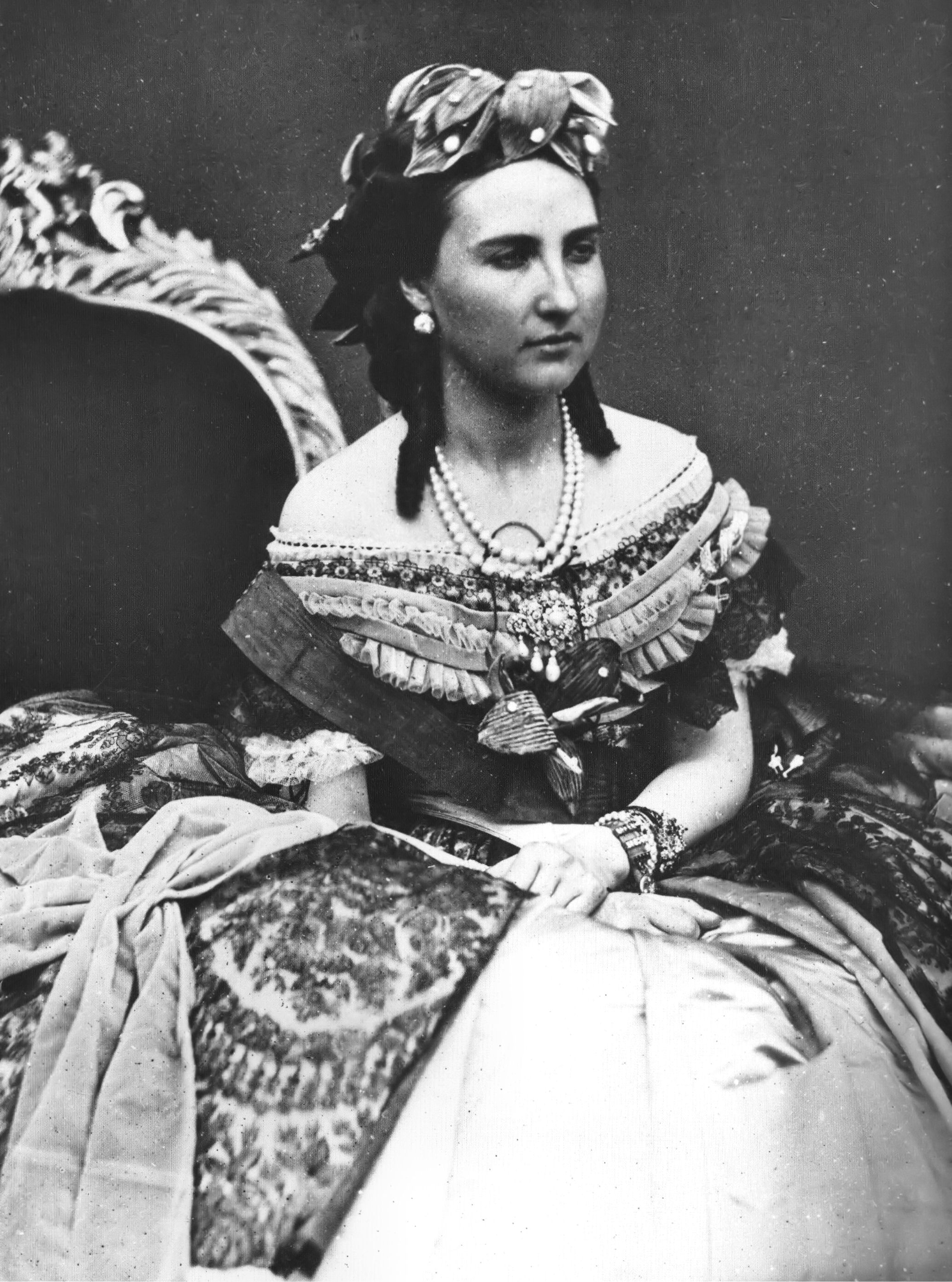 Charlotte of Belgium (1840-1927), Empress of Mexico